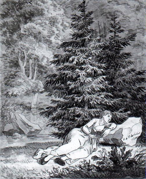 The Romantic Reader